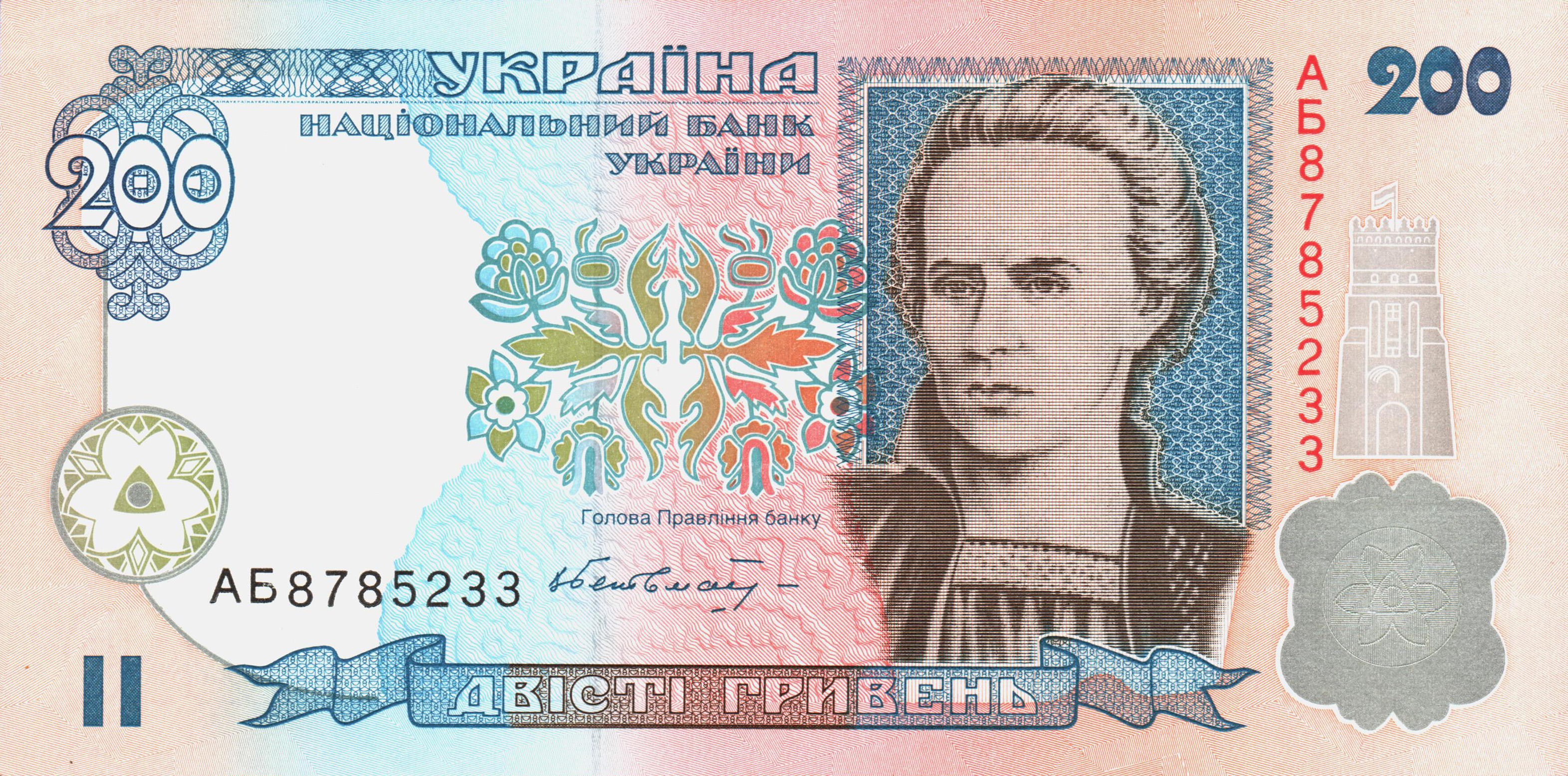 200 Hryvnia banknote (Ukraine), 2001, front